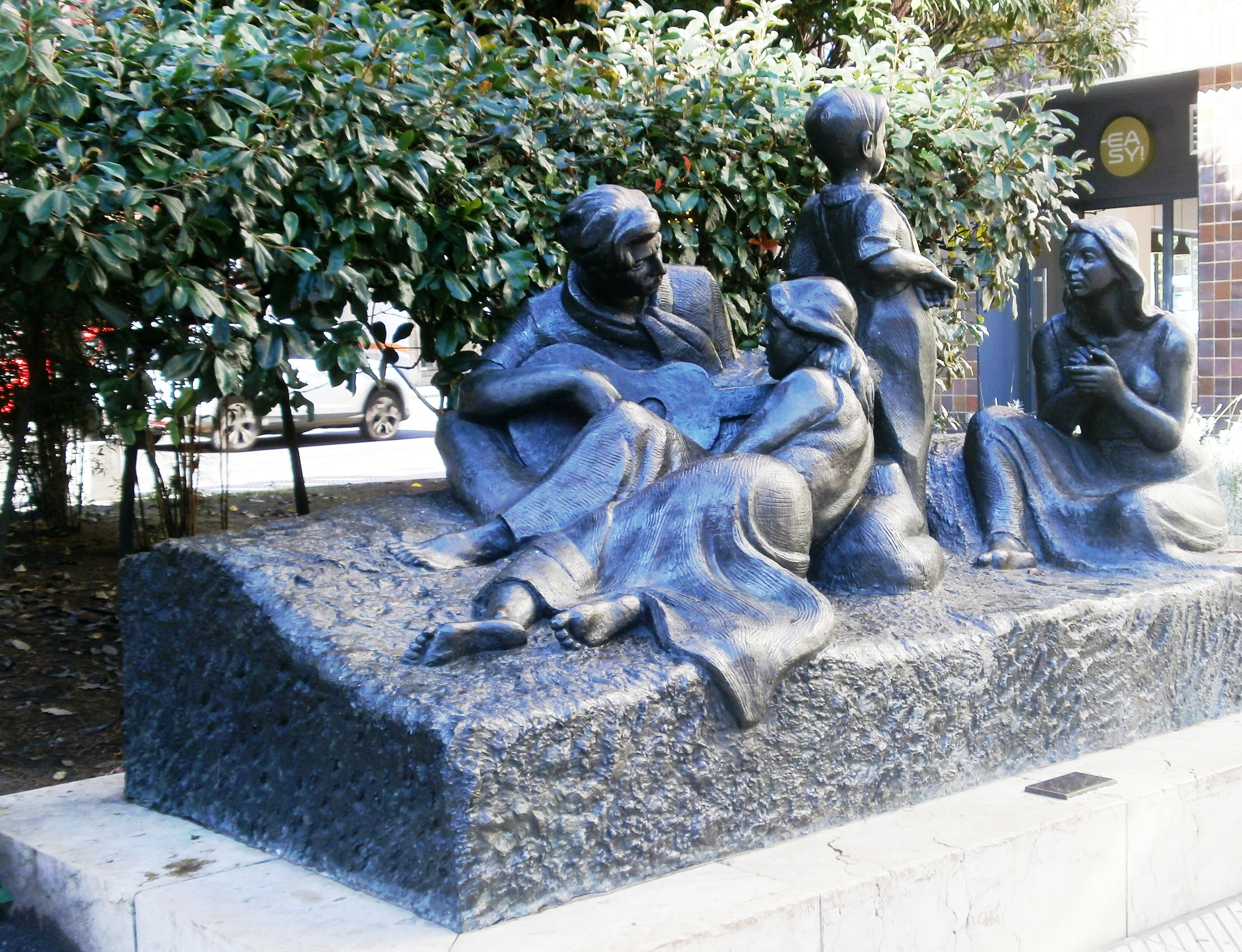 Esculturas en Oviedo al aire libre